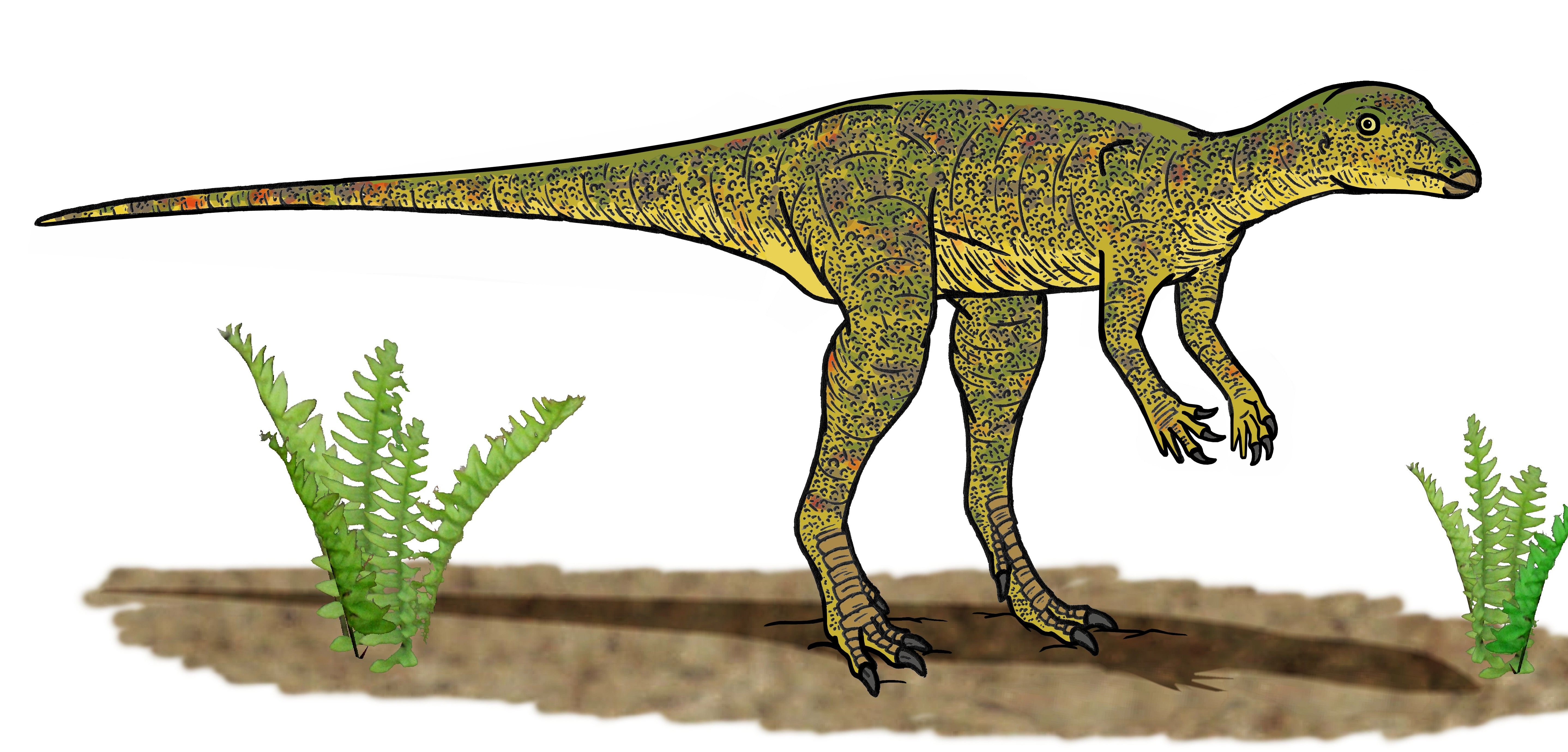 Restoration of the ornithischian dinosaur Lesothosaurus. References. Skeletal diagram. Skull.